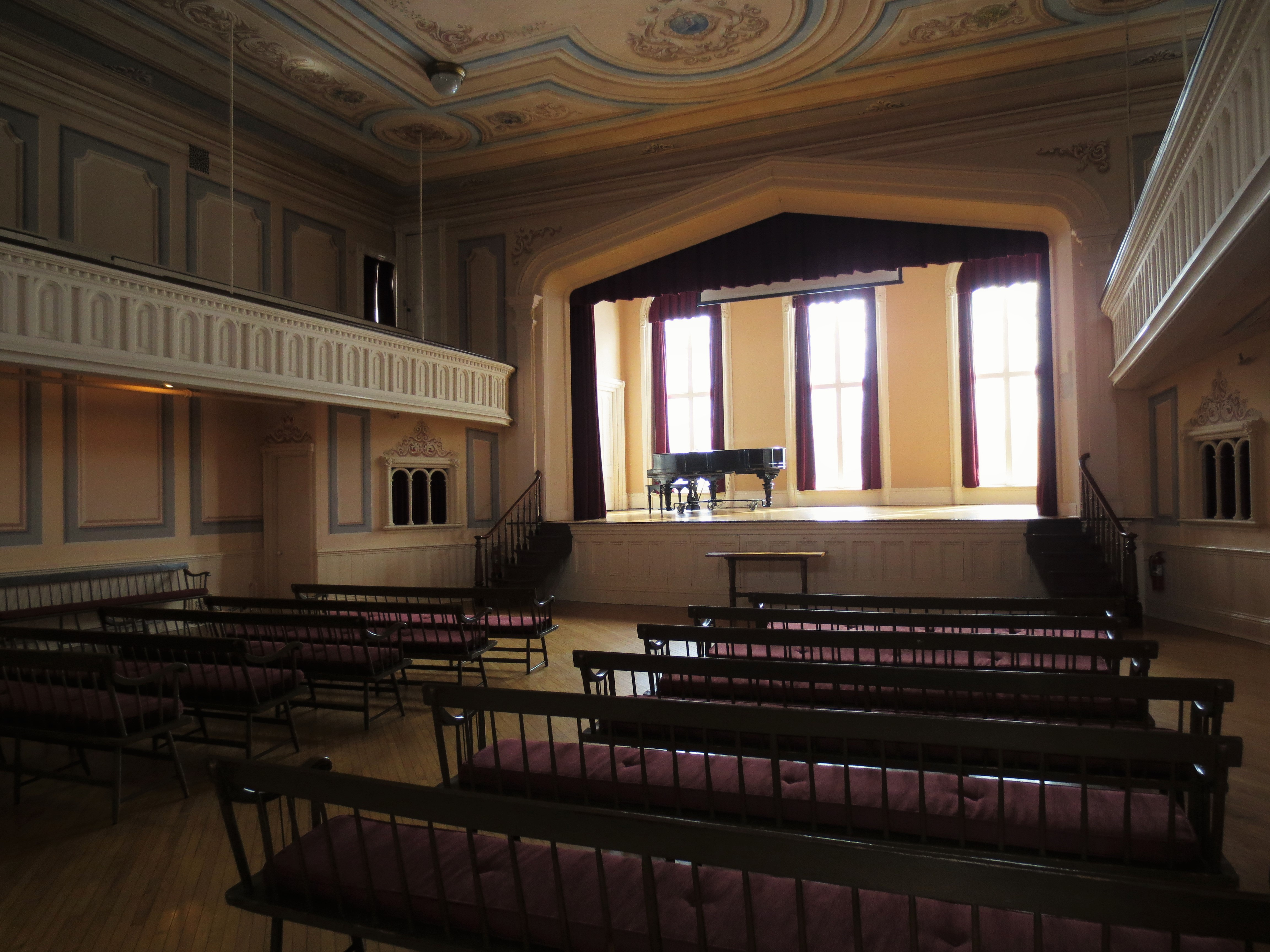 The Big Hall is the central room in the Mansion House, formerly the residence of the Oneida Community (1848-1880)